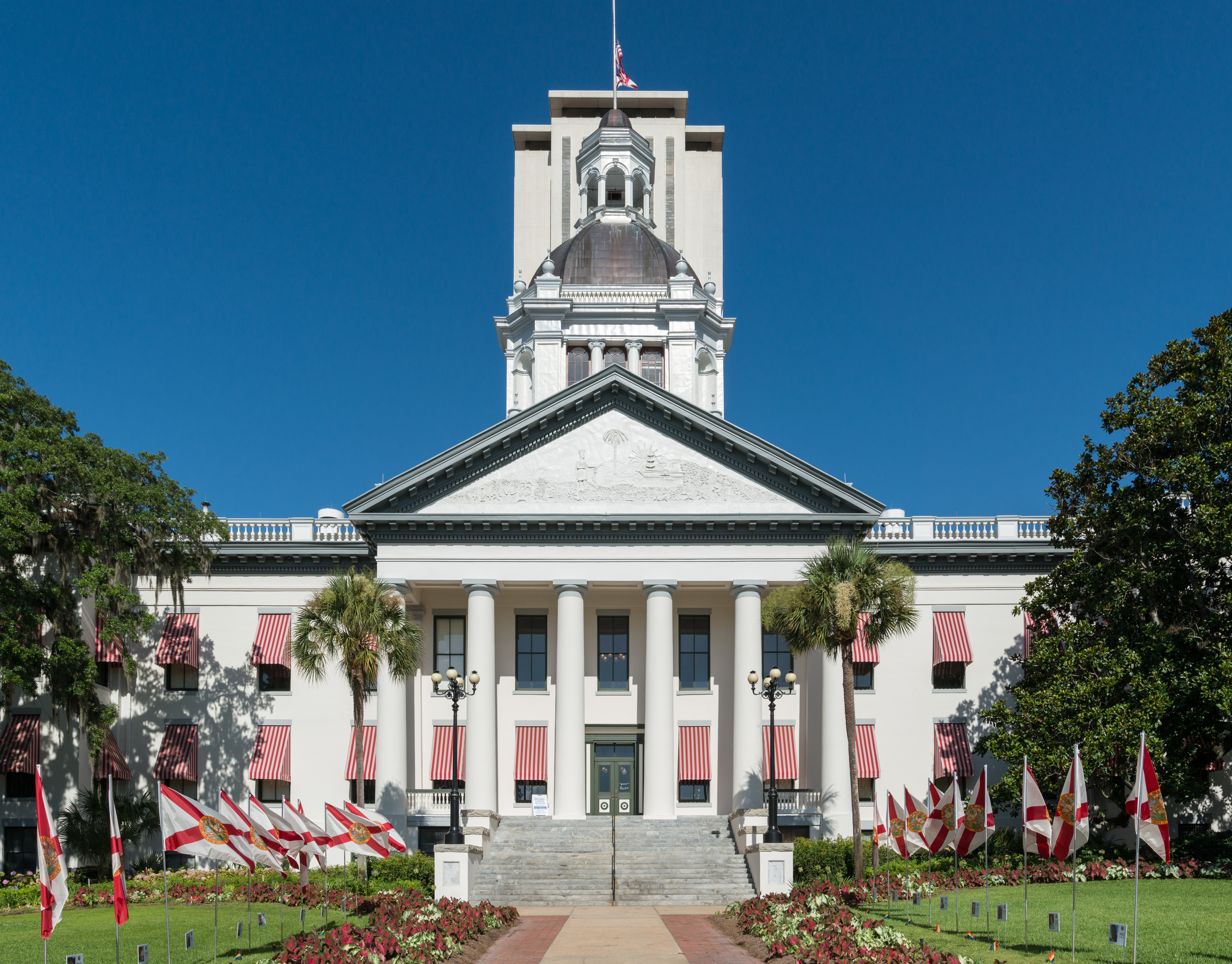 An east view of the old Florida State Capitol, Tallahassee. The new capitol is visible in the background